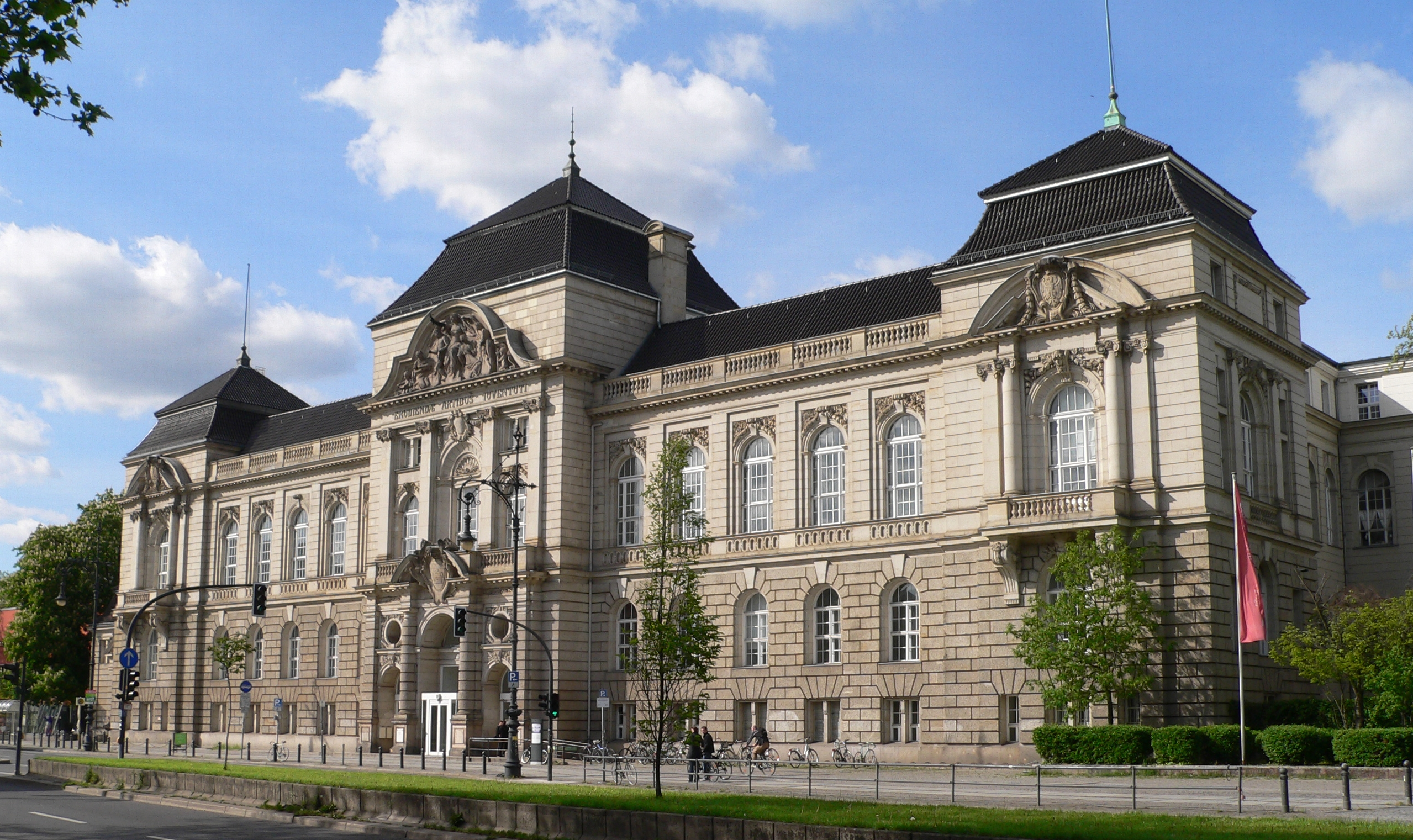 Berlin-Charlottenburg Universität der Künste at Hardenbergstraße